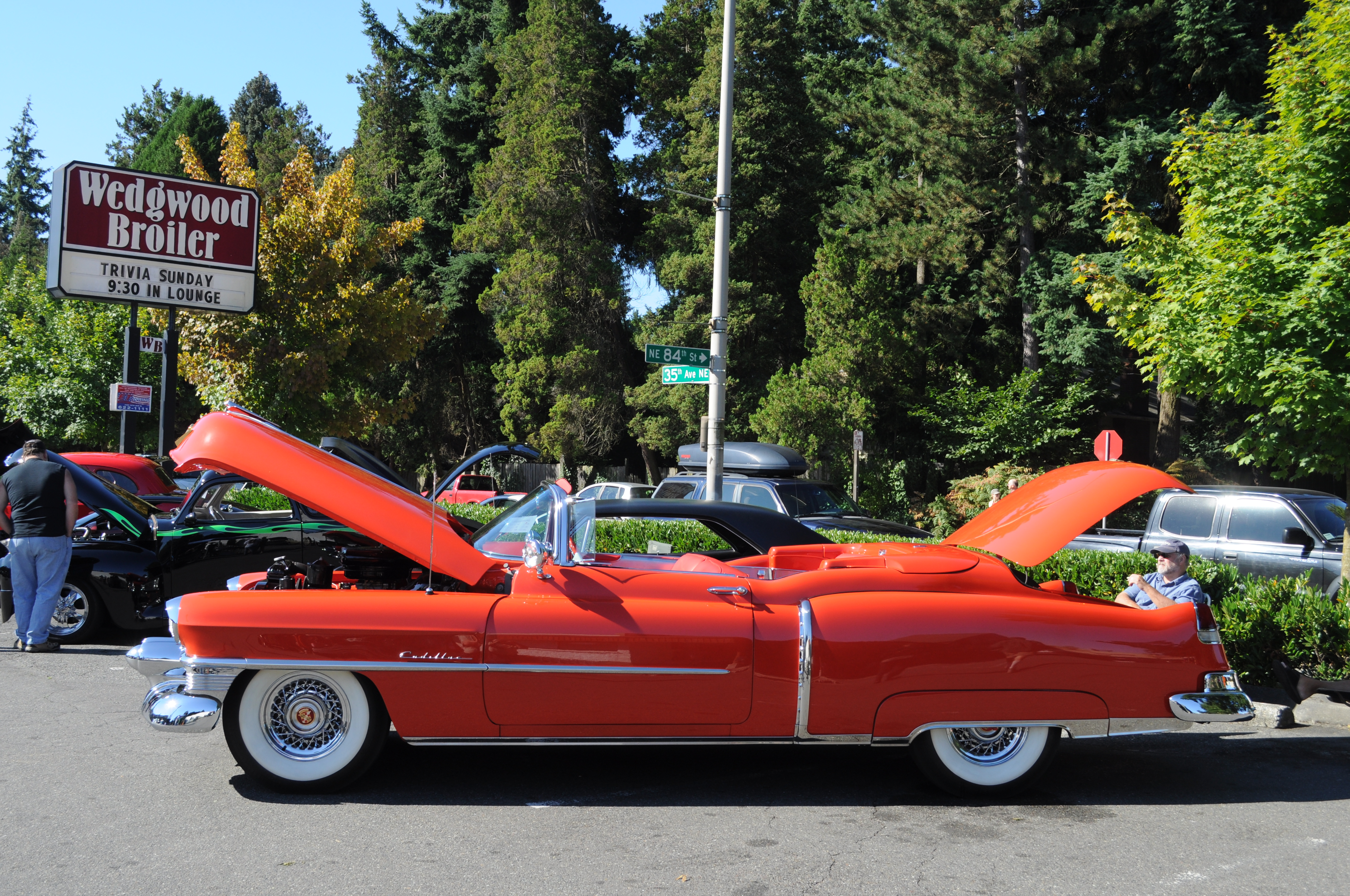 Customized 1953 Cadillac Eldorado, 4th Annual Chad Shanks Memorial Car Show, Wedgwood Broiler, Wedgwood, Seattle, Washington, USA